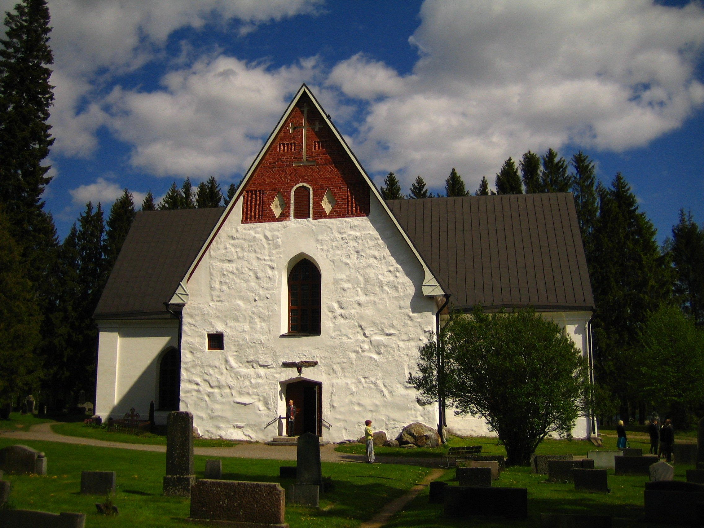 Church of Sysmä, Finland.